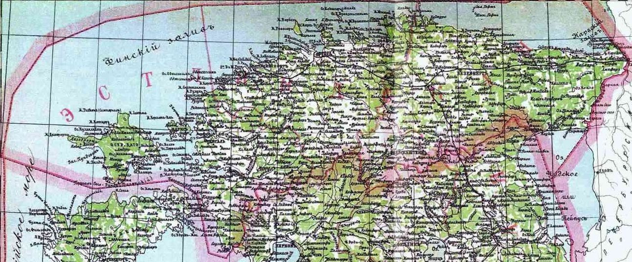 Governorate of Estonia of Russian Empire from Brockhaus and Efron Encyclopedia